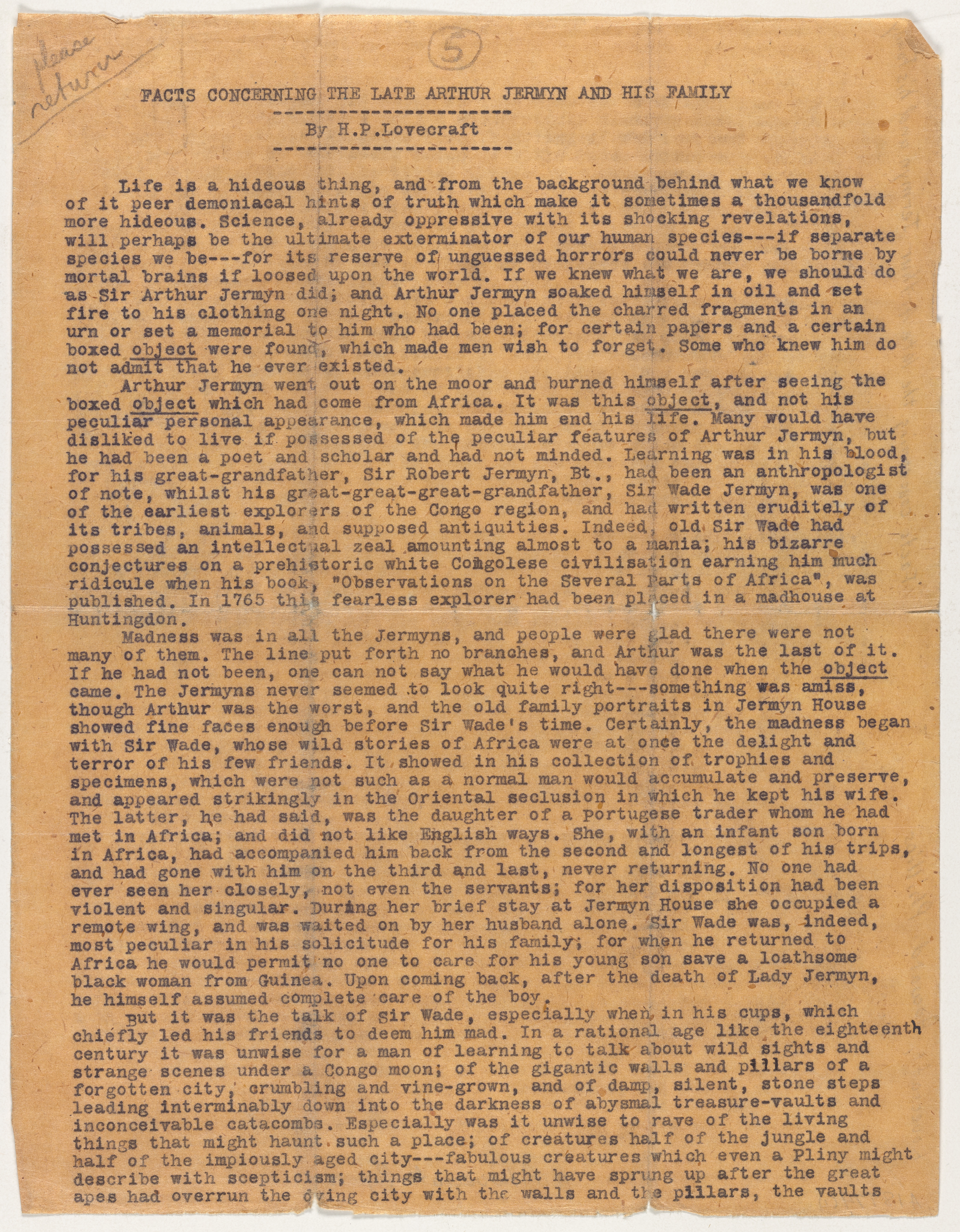 First page of the manuscript Facts Concerning the Late Arthur Jermyn & His Family.